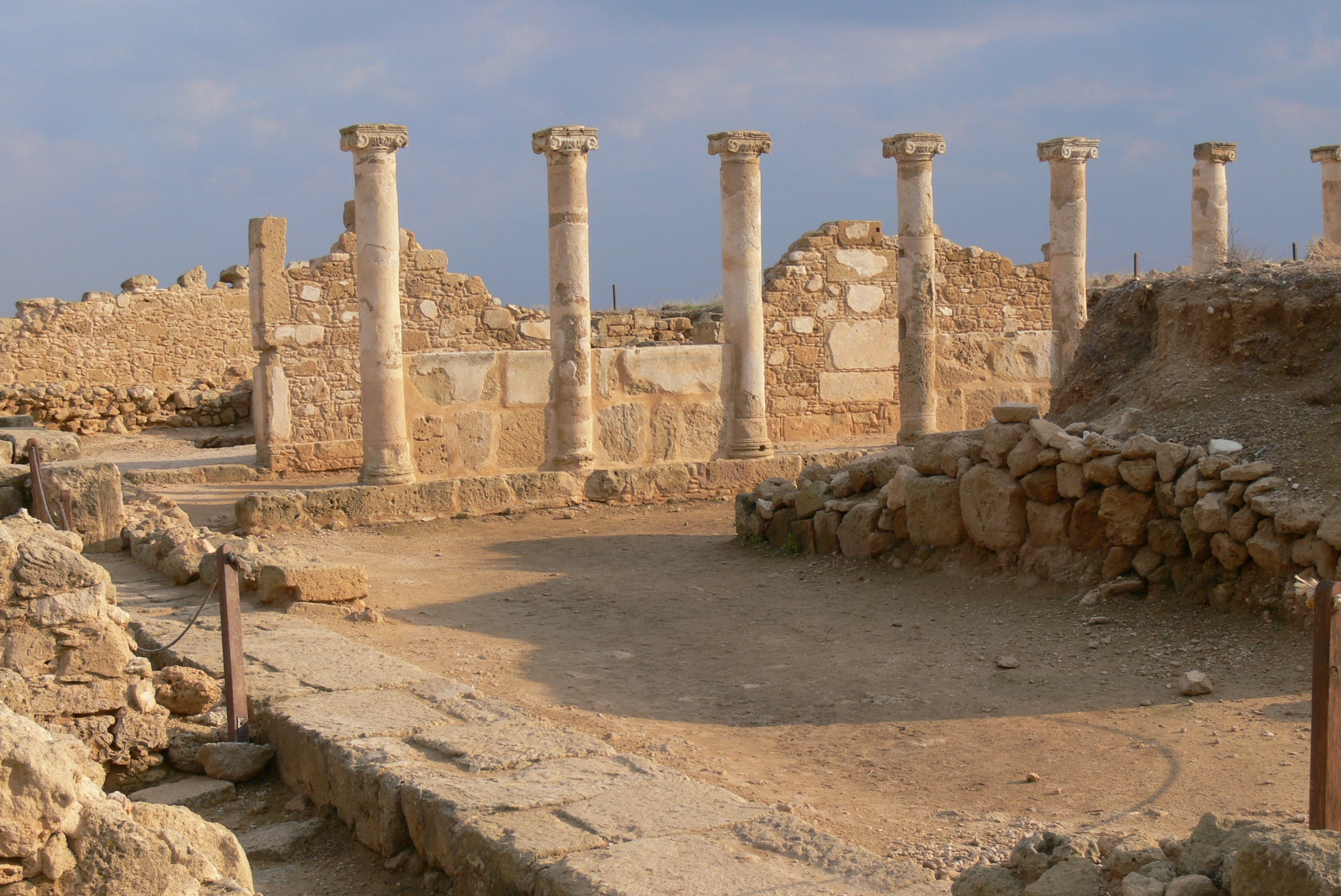 Paphos Archaeological Park. House of Theseus: Colonnade.